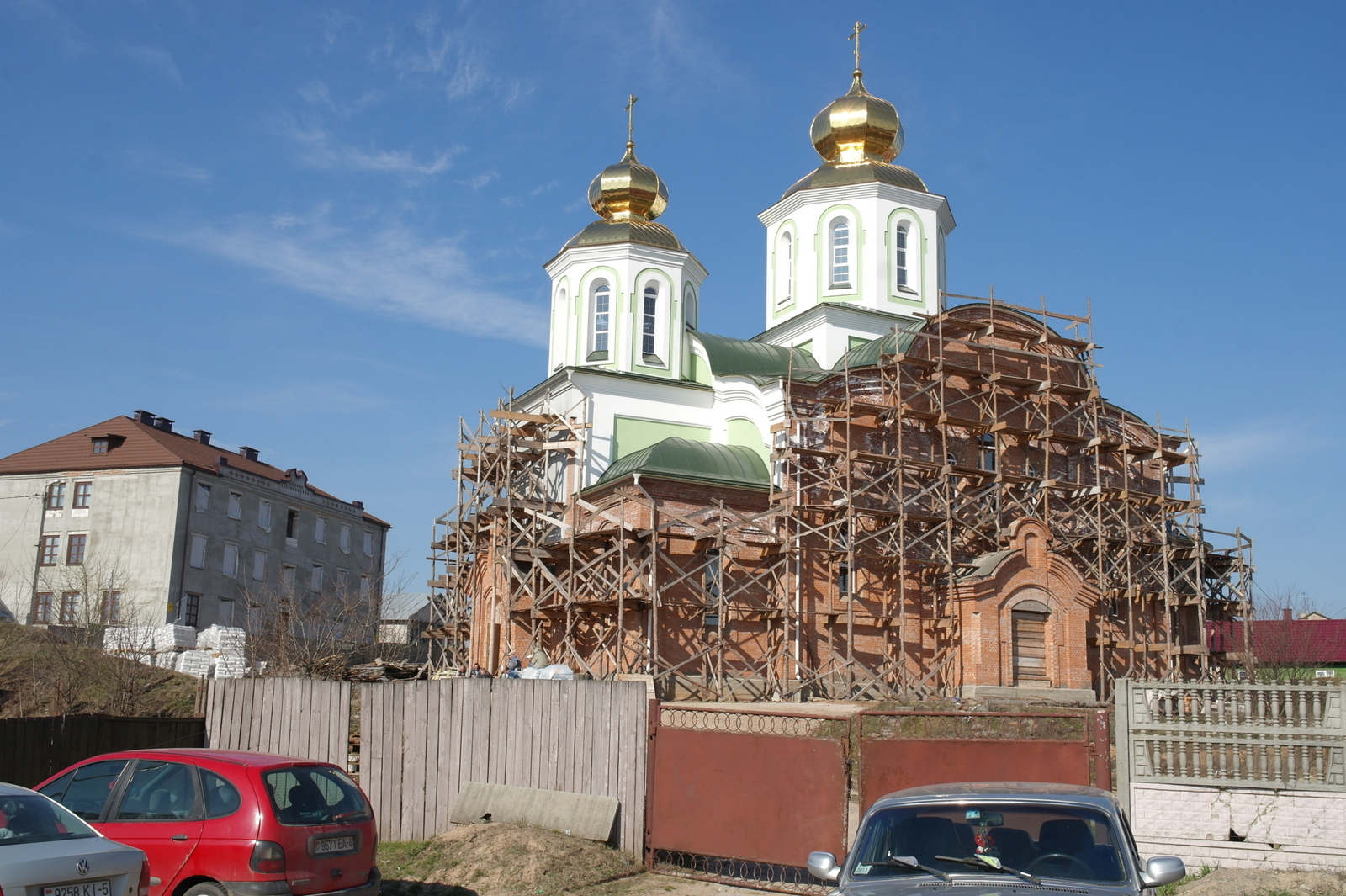 Orthodox Church of the Ascension of Christ, Nesvizh.